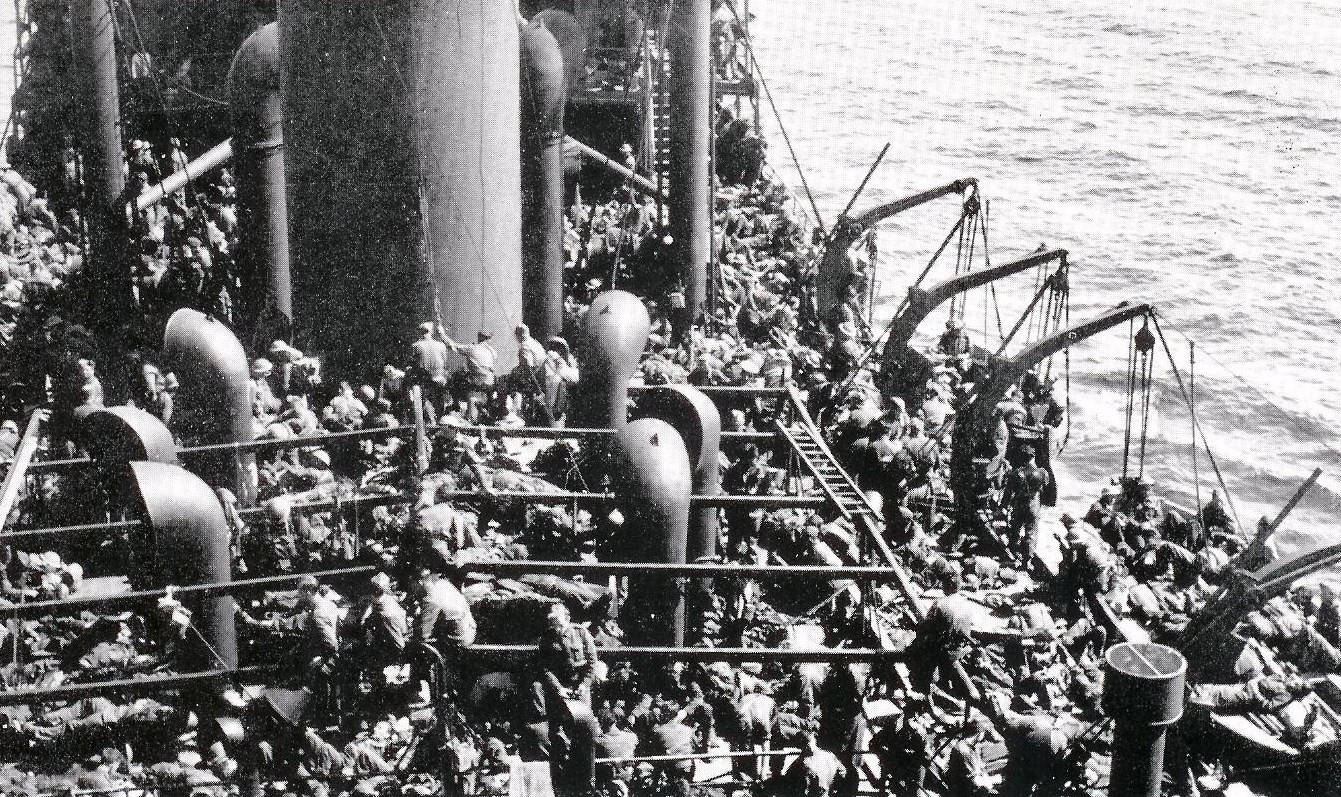 Operation Ariel troop evacuation on board SS Guinean ??? May 1940 ??? (the operation took place 15–25 June 1940)